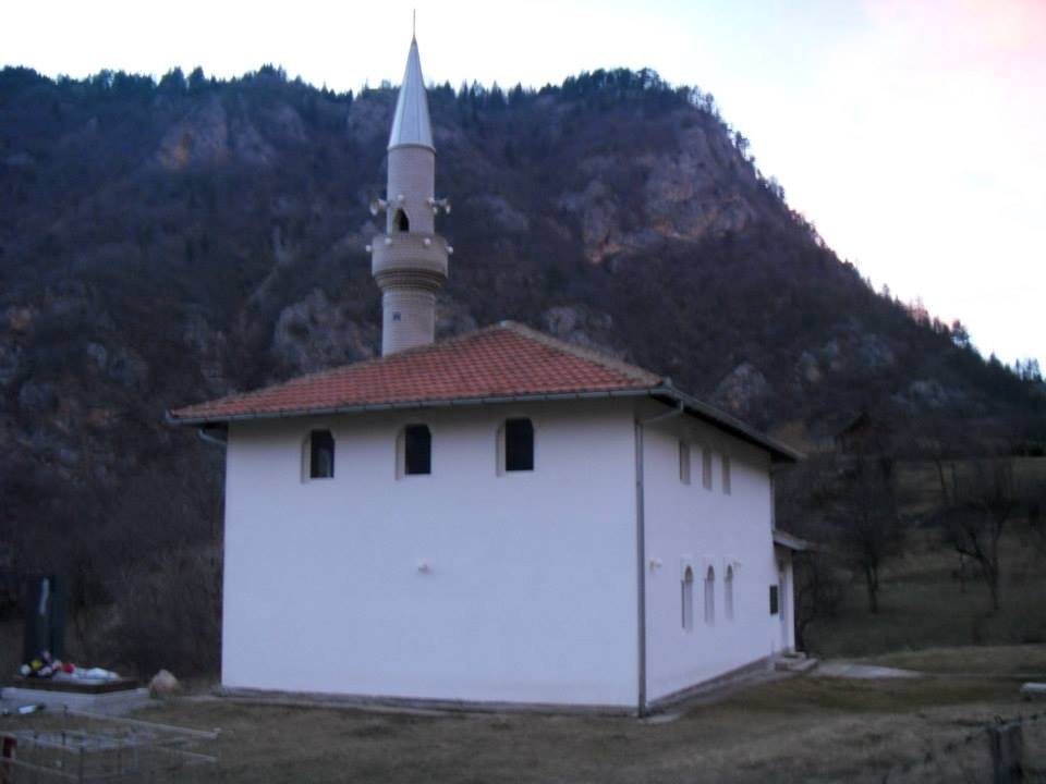 This is a mosque built on 20th century